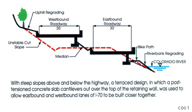 The construction of Interstate 70 in Colorado throughis listed as one of engineering marvels along the Interstate Highway system by the U.S. Department of Transportation. This drawing shows how the Colorado Department of Transportation planned to construct the freeway in the environmentally sensitive area using minimal additional footprint from the previous U.S. Route 6 alignment.